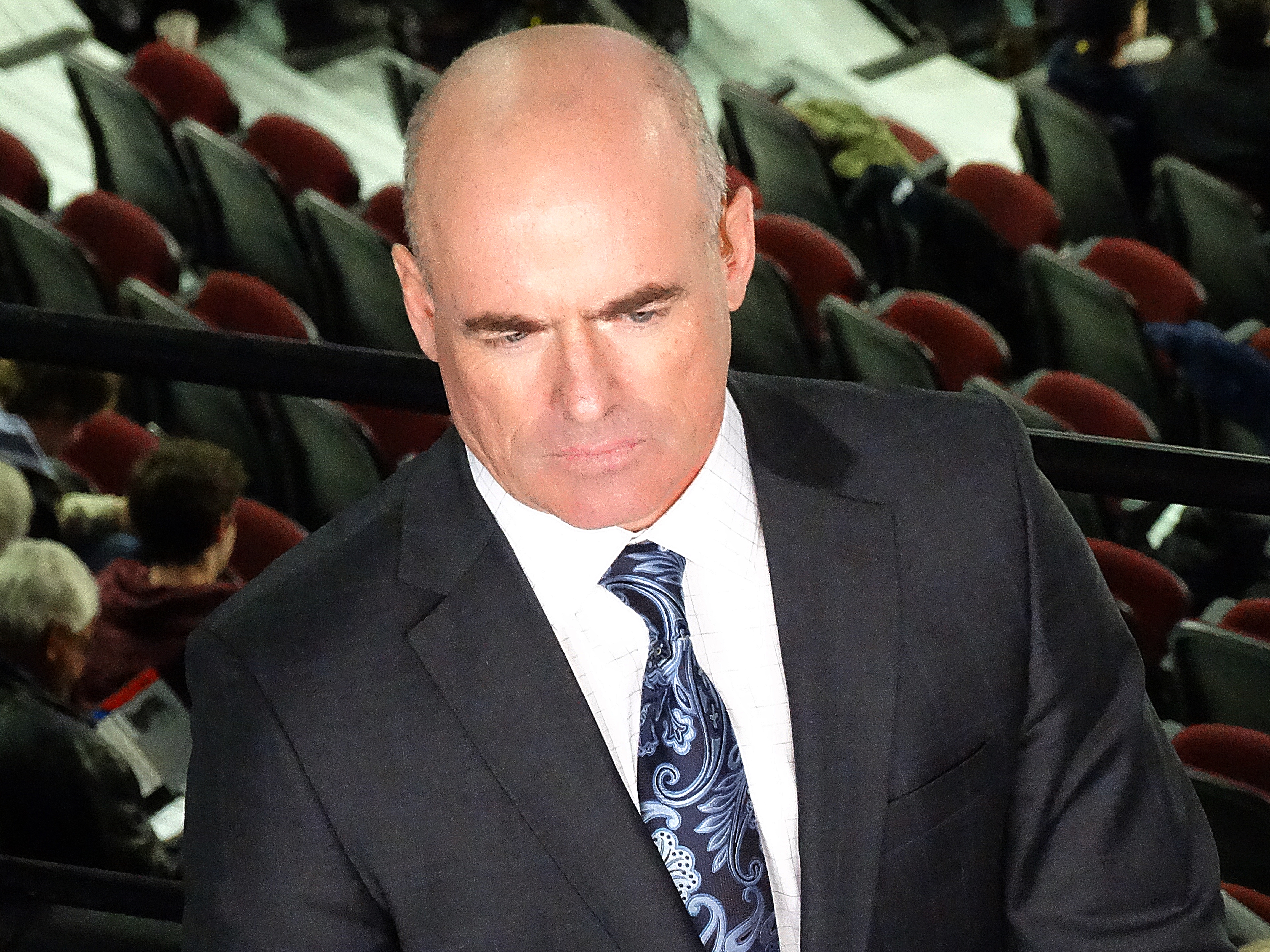 Damien Cox is a sports columnist with the Toronto Star newspaper and a member of the Sportsnet television hockey panel. The CHL Top Prospects game at Scotiabank Saddledome on January 15, 2014 in Calgary, Alberta, Canada. Team Orr defeated Team Cherry 4-3.